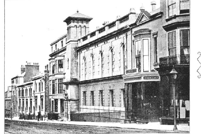 Original building of the United Reformed Church. Taken from an early publication about the church circa 1880.